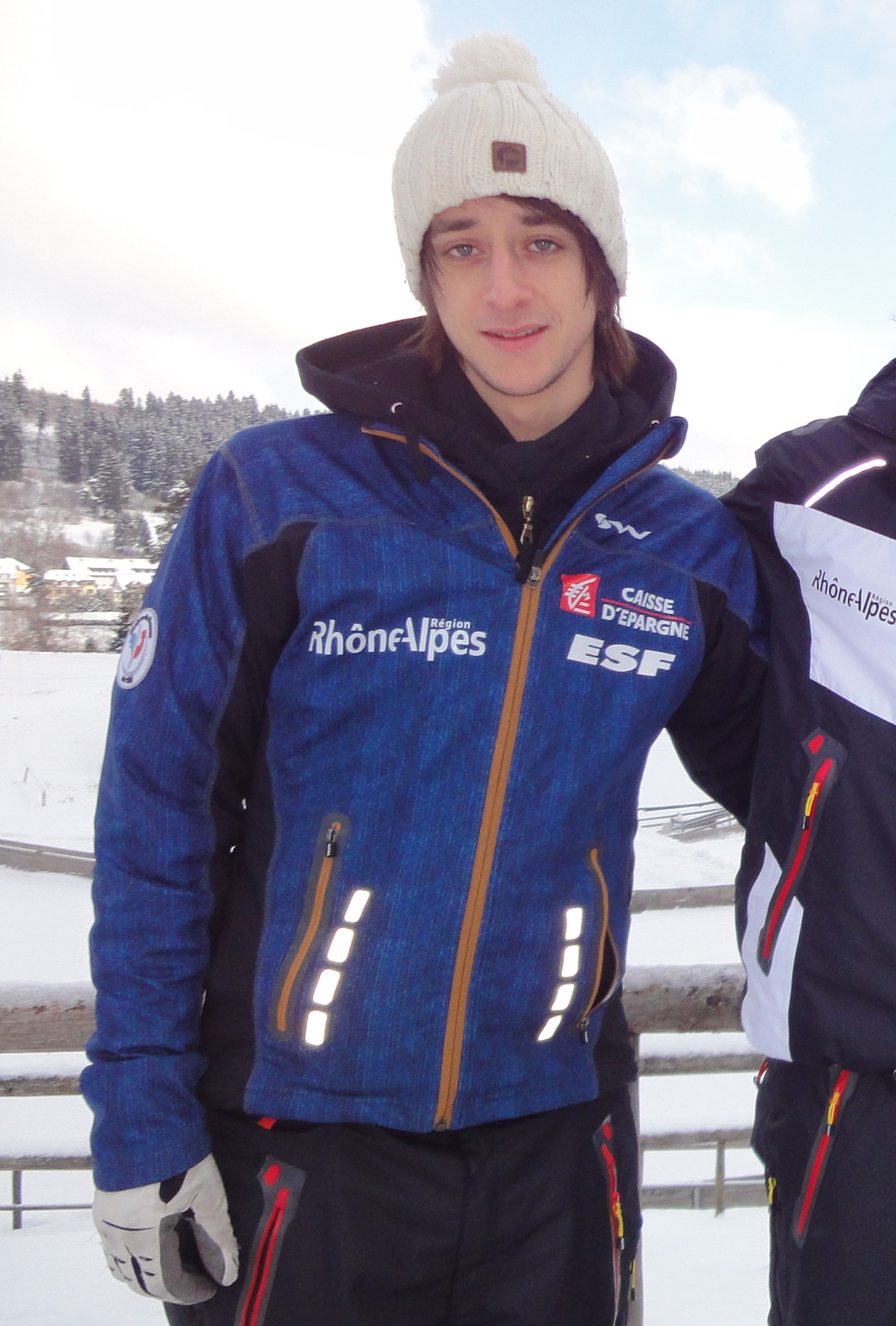 Alexandre Mabboux: the photo was taken during Saturday's competition of 2011's Continental Cup event at the Hochfirstschanze in Titisee-Neustadt